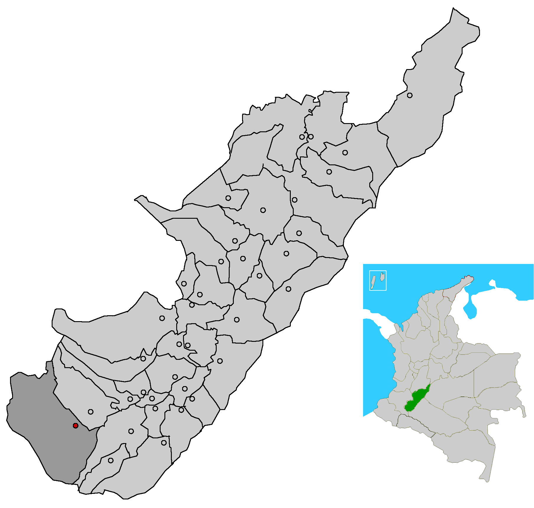 Image depicting map location of the town and municipality of San Agustin in Huila Department, Colombia